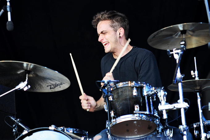 The Jezabels drummer Nik Kaloper, Southbound Festival 2012, at Sir Stewart Bovell Park, 8 January 2012.